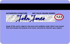 Sample VISA, MasterCard or Discover Card featuring the Card Security Code on the back (circled in red). This version reflects the newer standard, progressively implemented by financial institutions, under which the code is on a separate panel besides the signature. Based on existing standards.